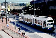 Tacoma Tram - Tacoma Link, Washington, USA